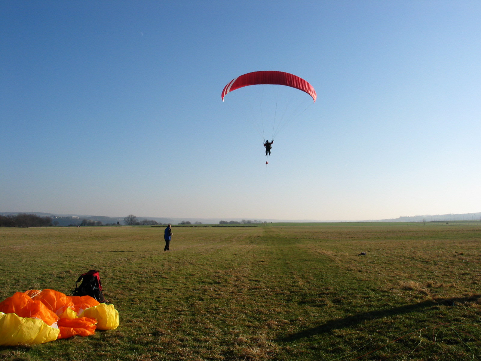 Paraglider on winch launch, Werlau, St. Goar, Rheinland-Pfalz, Germany